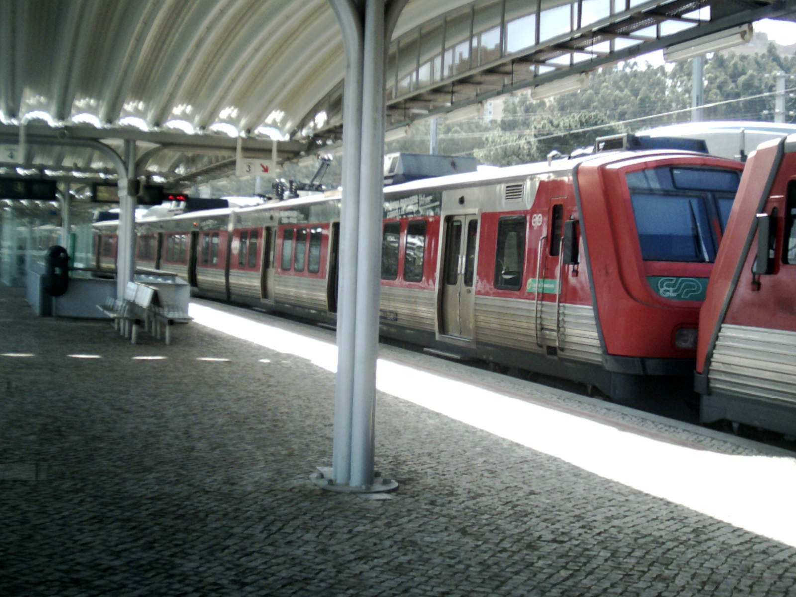 Train station of Mira-Sintra/Meleças. This station is unique because of its age; at the time of this post, it's less than 2 years old. On the right side, one can see the standard train used throughout all of the Sintra railroad.